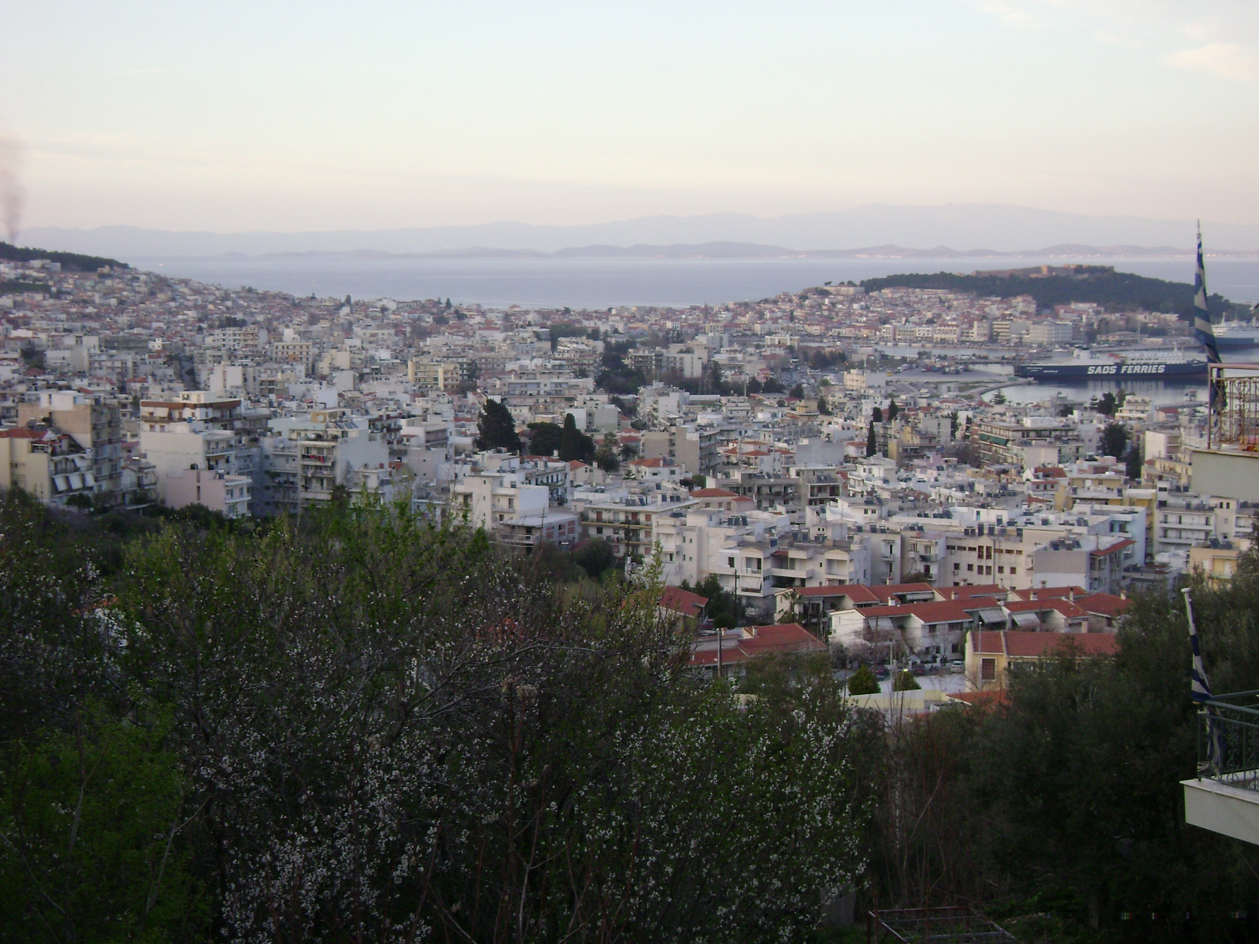 Mytilini city view from Chalikas.